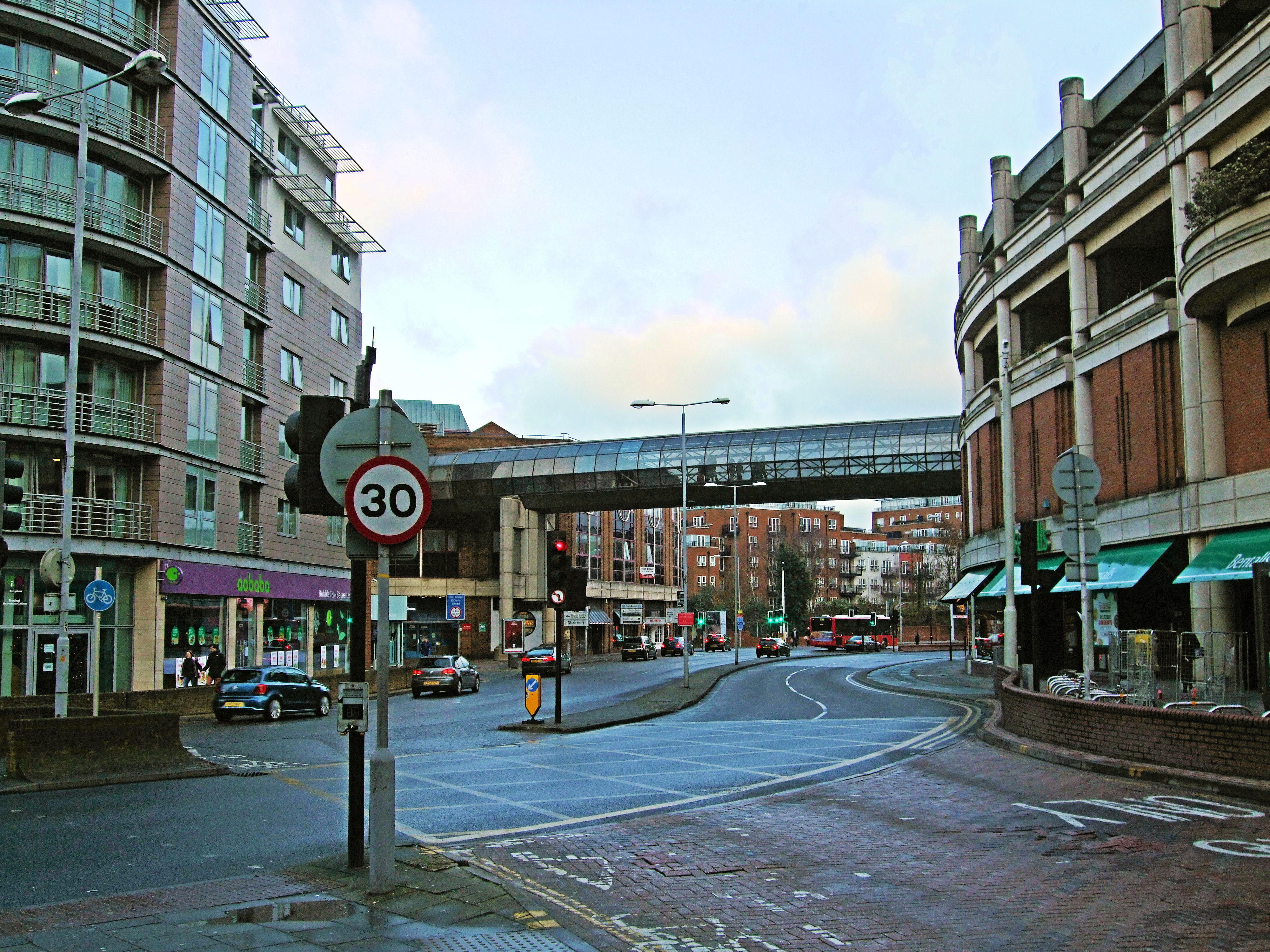 The Bentalls Bridge, Kingston-upon-Thames - London.